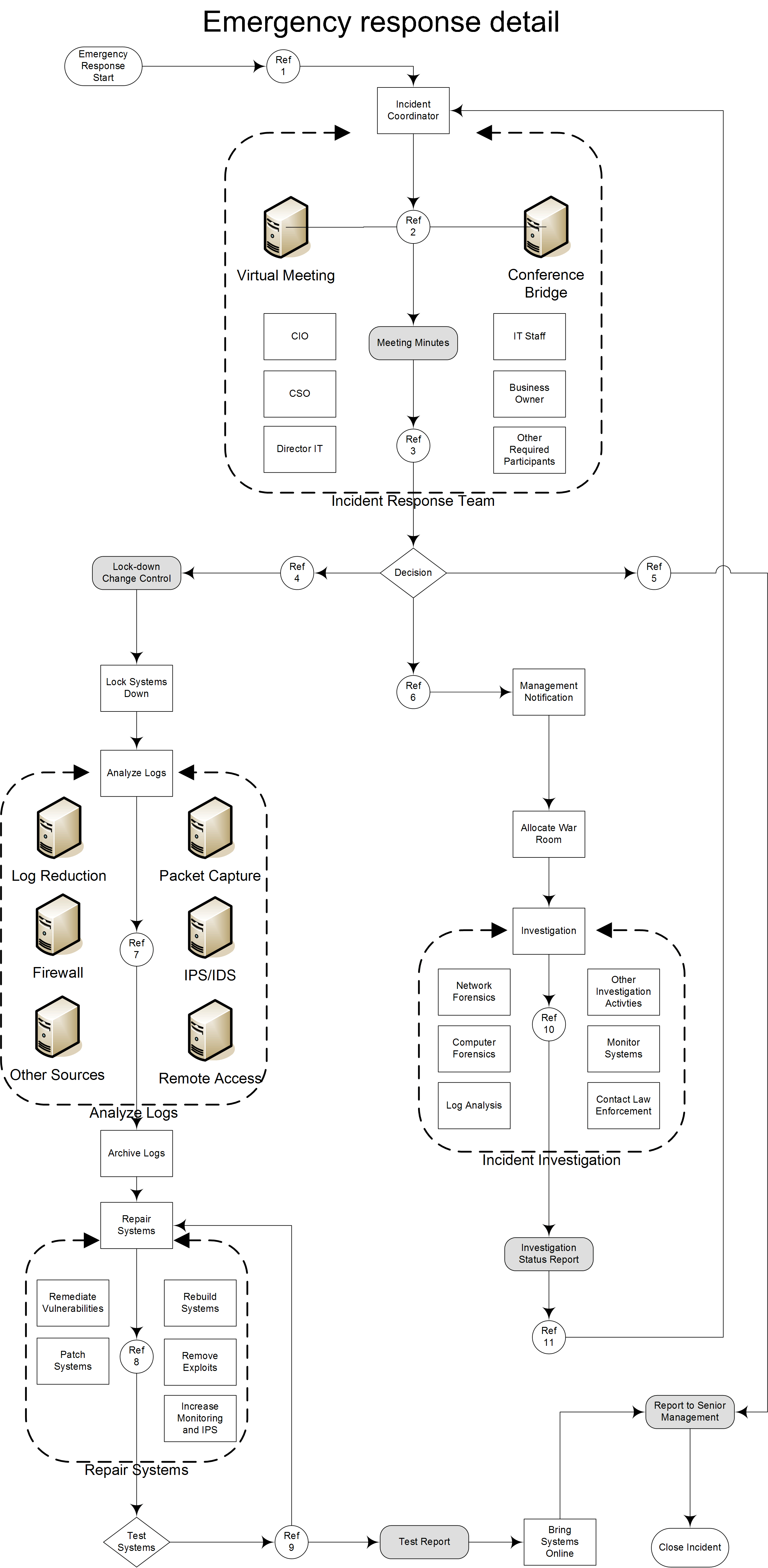 Computer security emergency incident process diagram